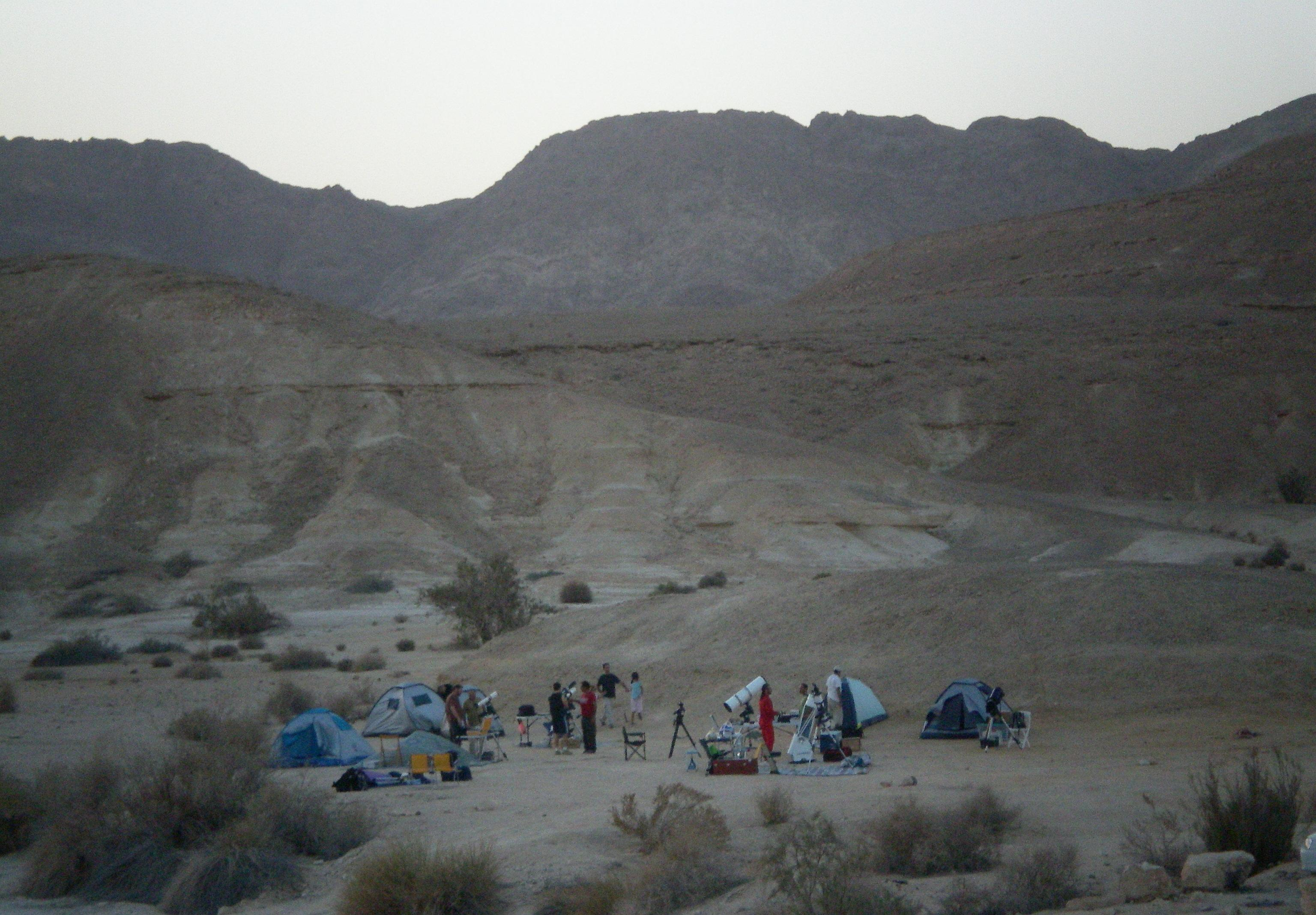 Star party in the the Negev Desert.